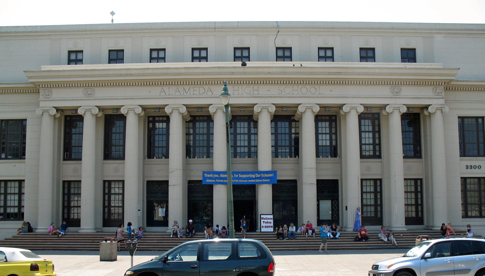 National Register of Historic Places listings in Alameda County, California. Alameda High School, 2200 Central Ave, Alameda, CA. Photographed August 9, 2009 from the north side of Central Ave. between Oak and Walnut Sts. Alameda High School auditorium, one of three buildings that were built circa 1926–1928. [1] [2] The architecture, designed by local architect Carl Werner, is designed in the early-twentieth-century Neo-Classical Revival style. [1]